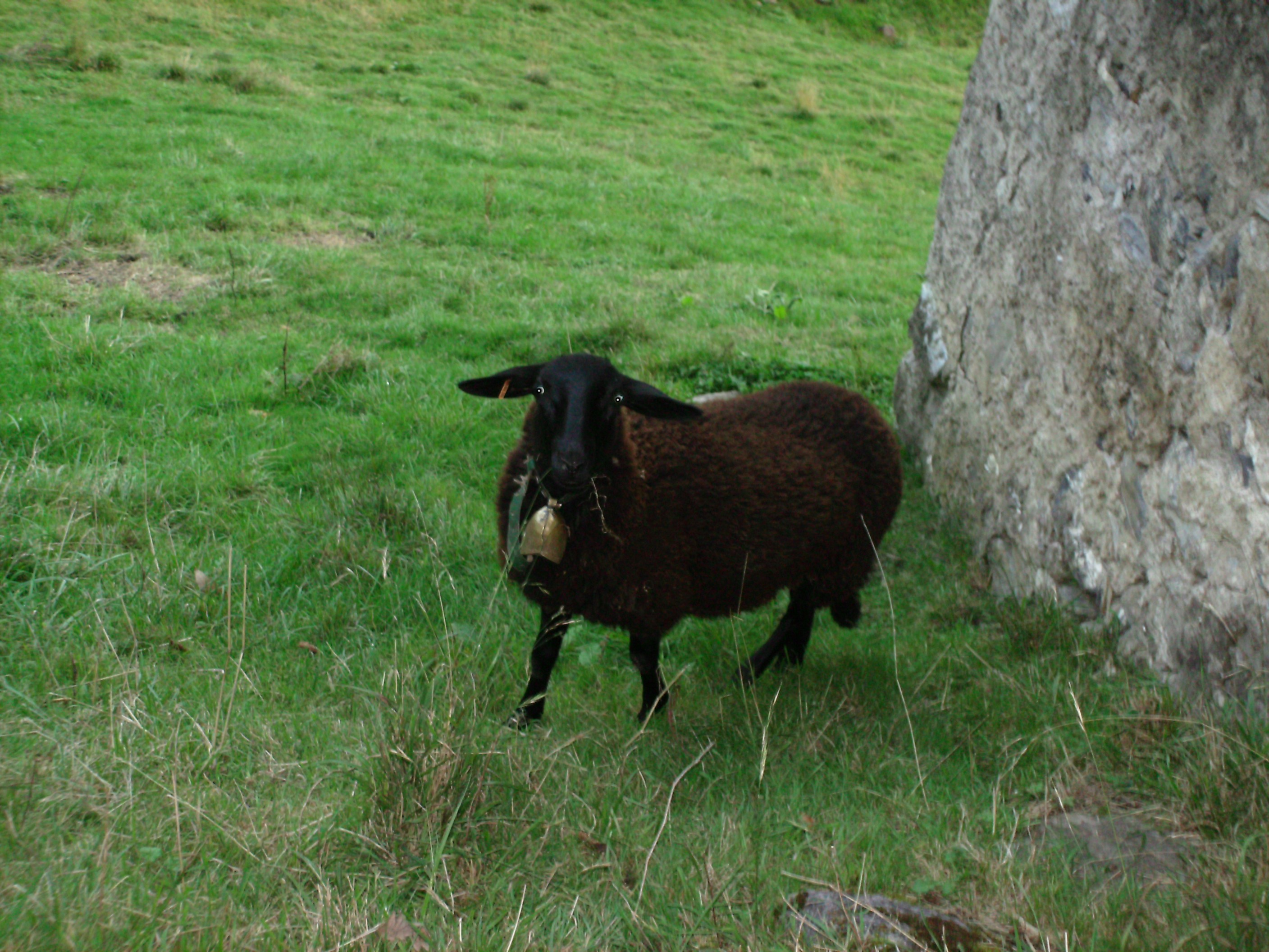 Young sheep, "Noire du Velay" race